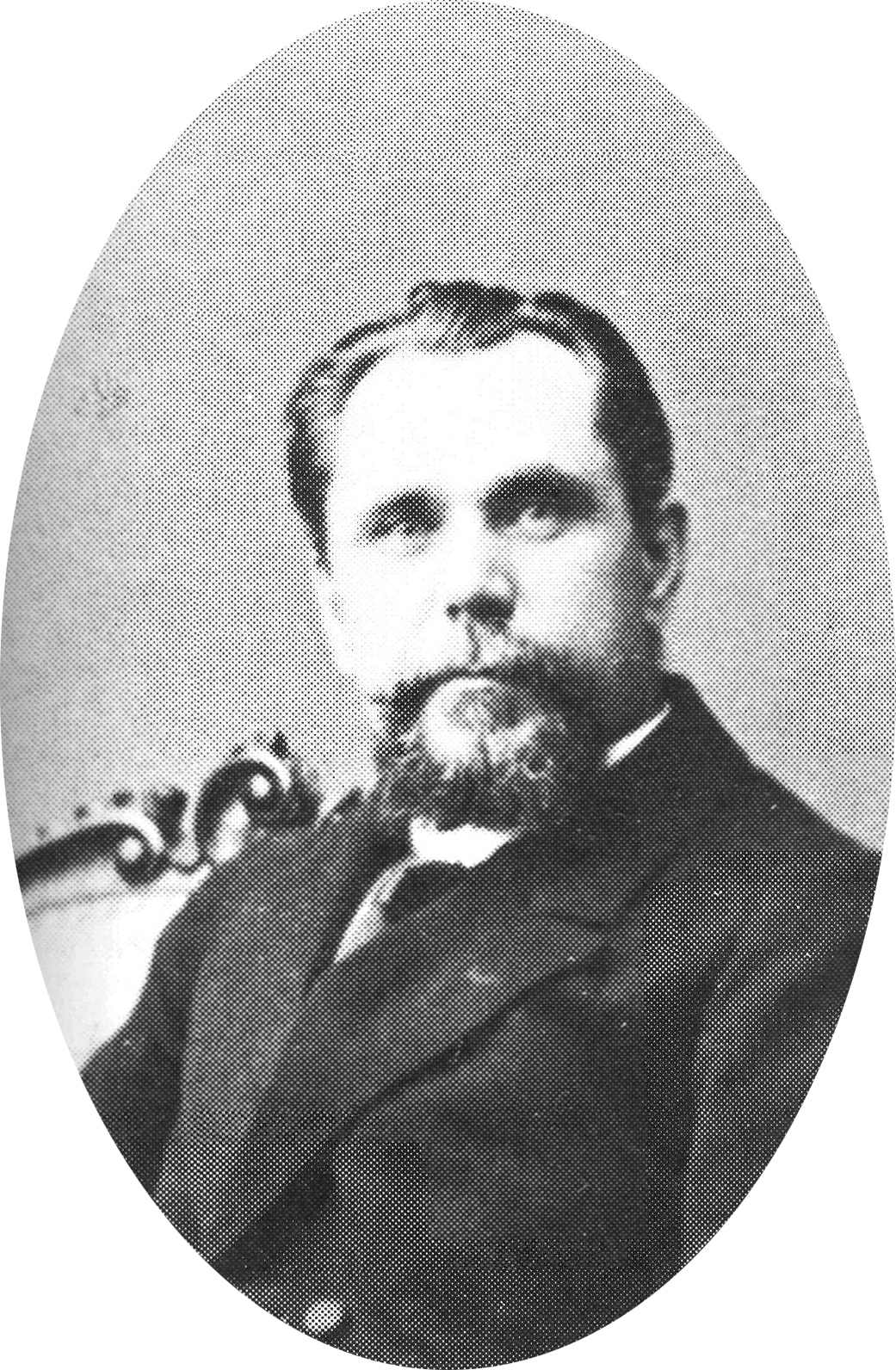 Ernst Lagus, Finnish educator and cultural historian.